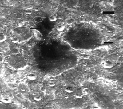 Chretien lunar crater - Clementine image